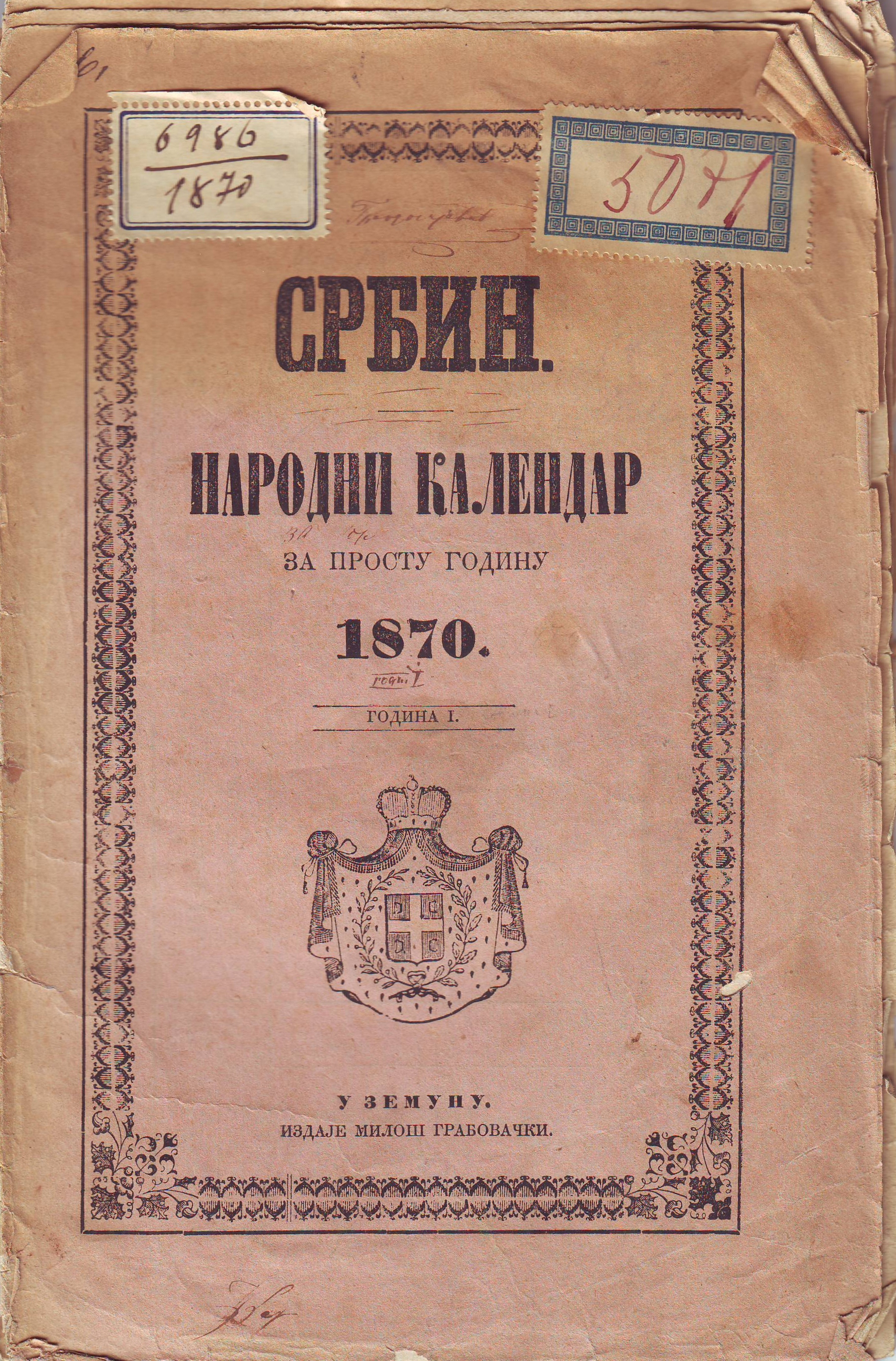 Front page of the 1870 issue of the People's Calendar Srbin. Srpski (latinica): Naslovna strana izdanja Narodnog kalendara Srbin za 1870. godinu.